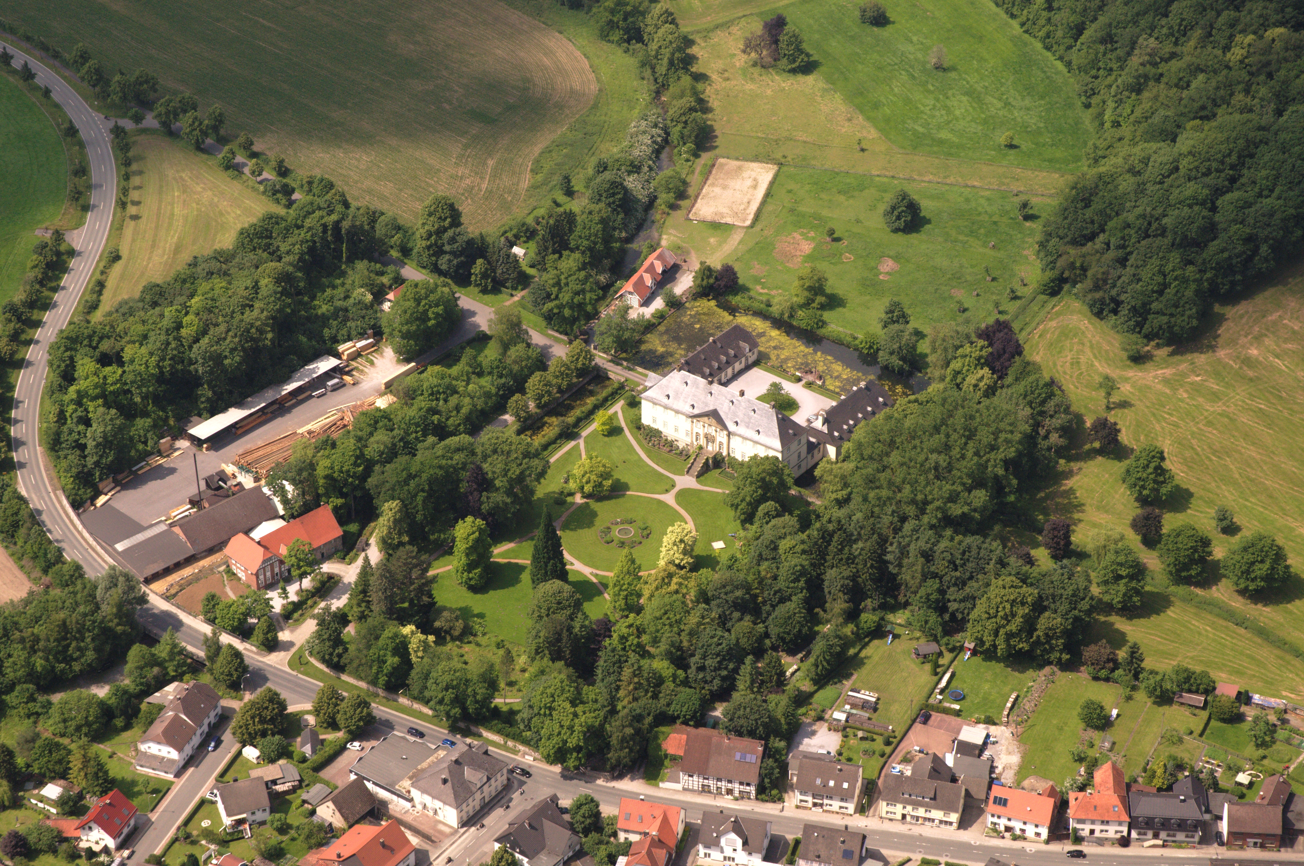 Fotoflug Sauerland-Ost, Brilon-Alme, Schloss Alme The making of this document was supported by the Community-Budget of Wikimedia Germany.